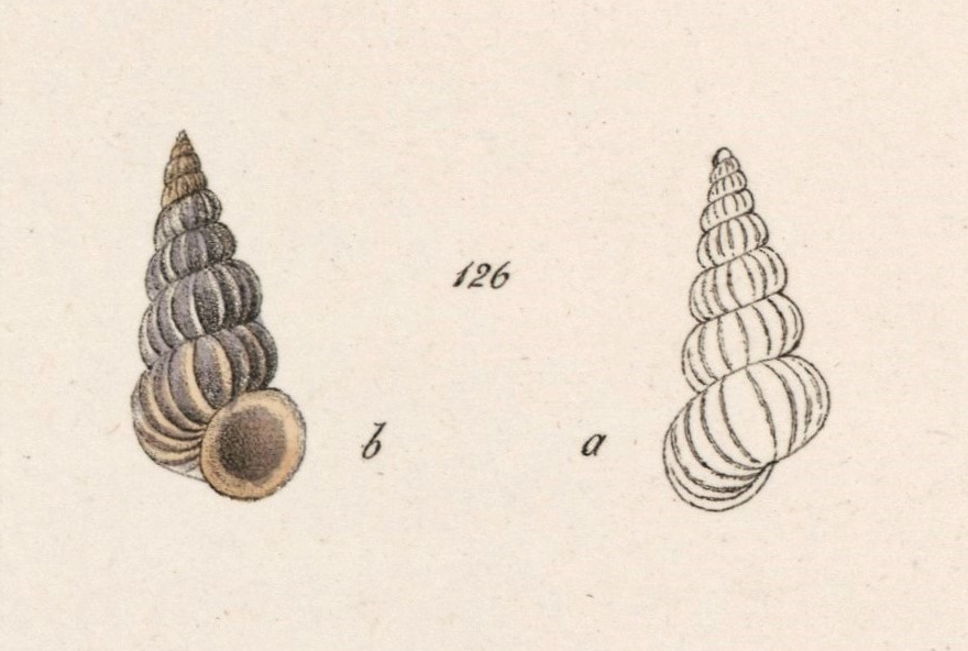 New England wentletrap; Epitonium novangliae (Couthouy, 1838). Illustration in Mollusca pp. 104-131. The New York fauna